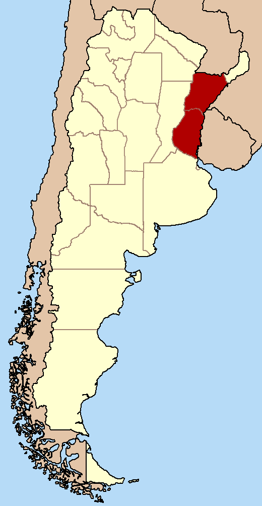 Republic_of_Entre_Ríos - in present day Argentina.